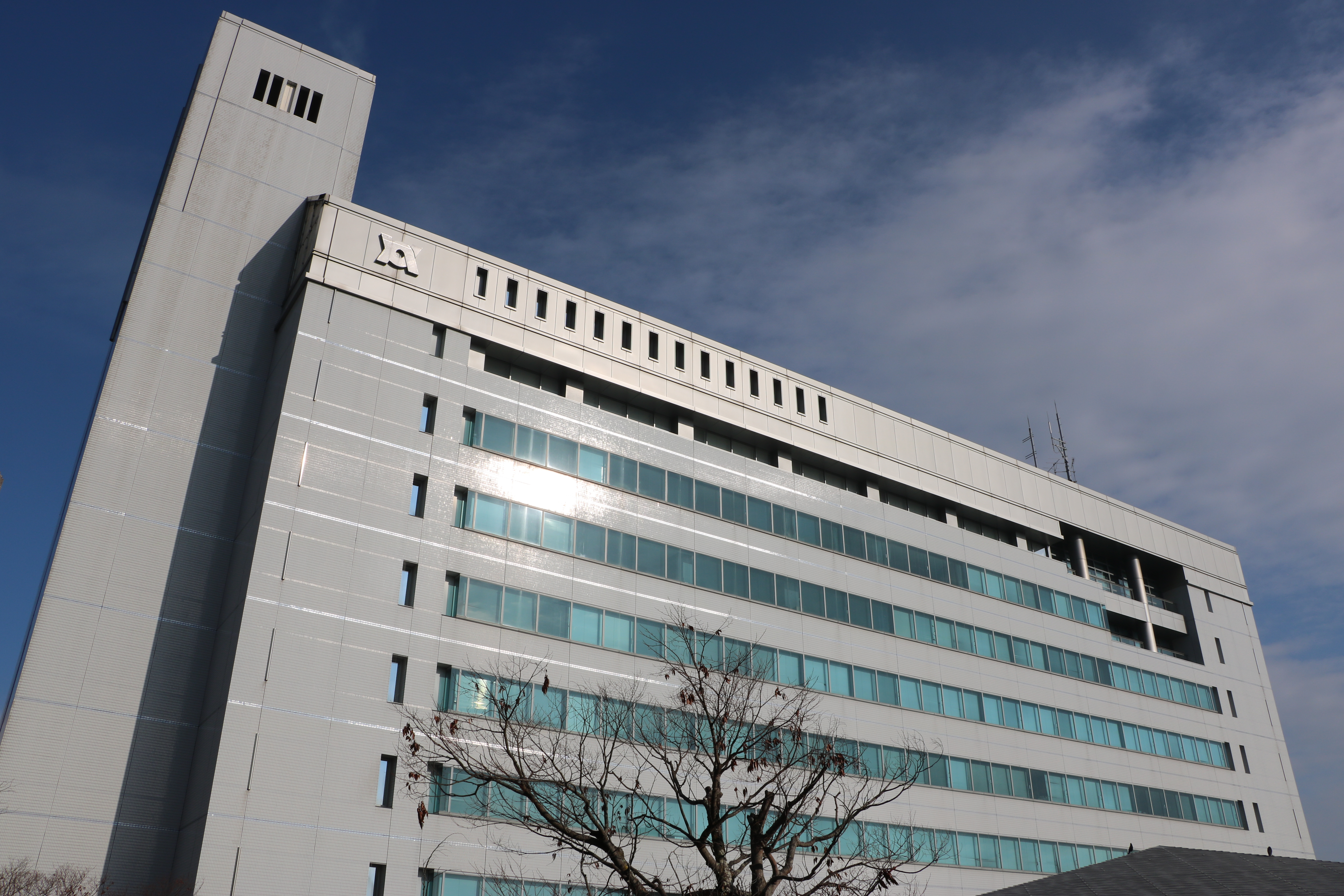 Kameoka City Hall